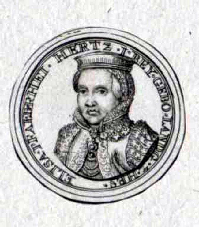 Elisabeth of Hesse (1539-1582)